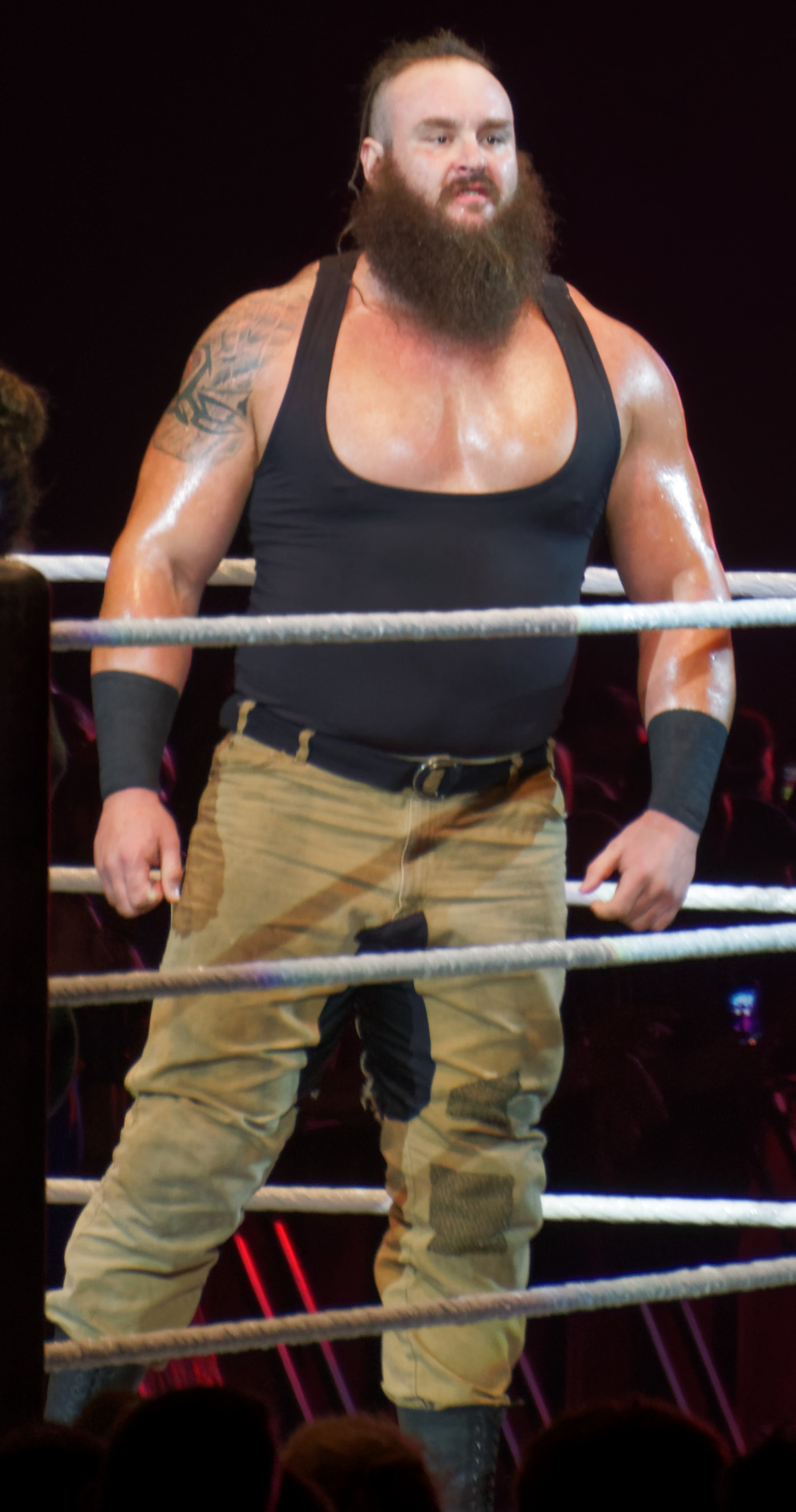 Braun Strowman in September 2016